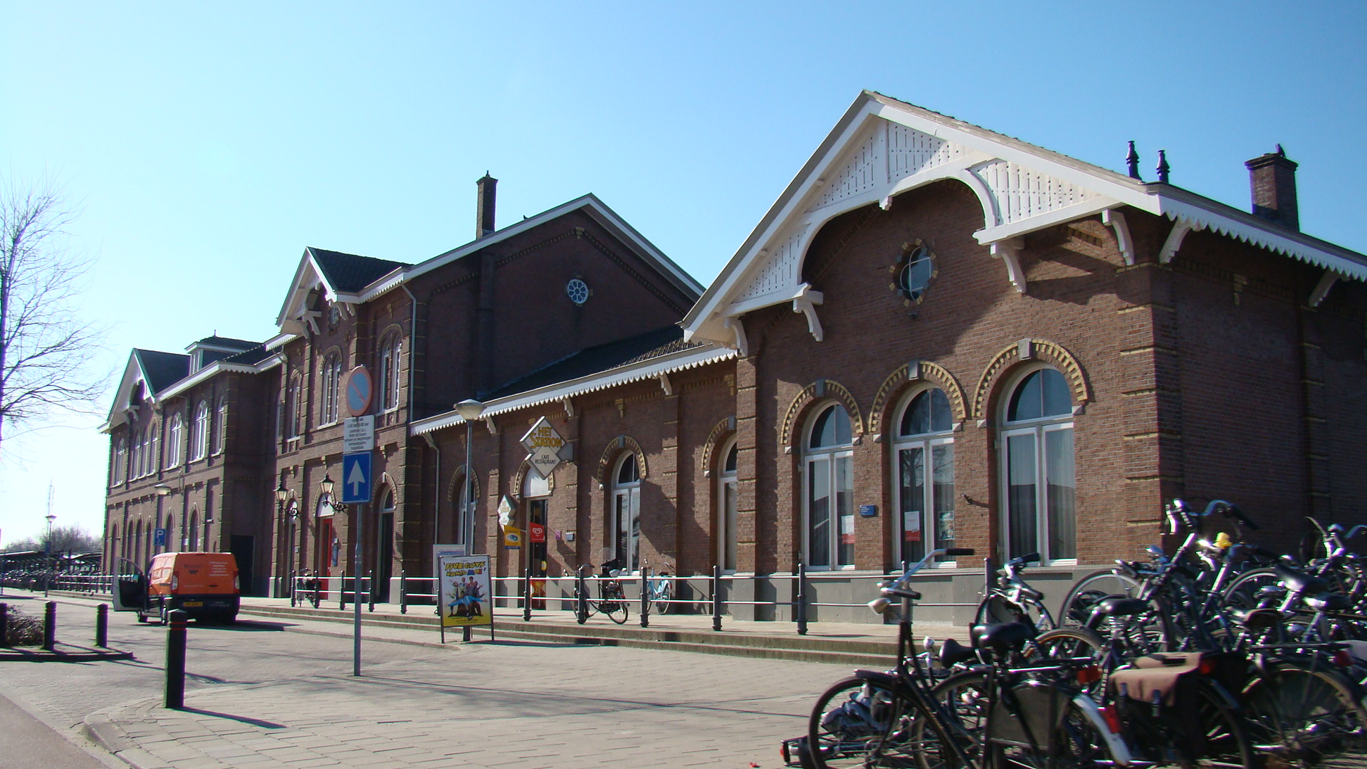 Train station of Winterswijk